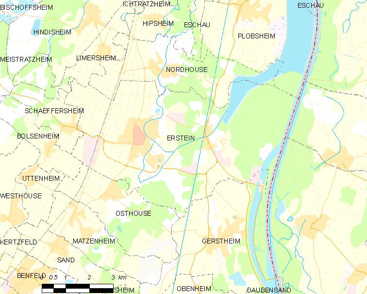 Map of French municipality